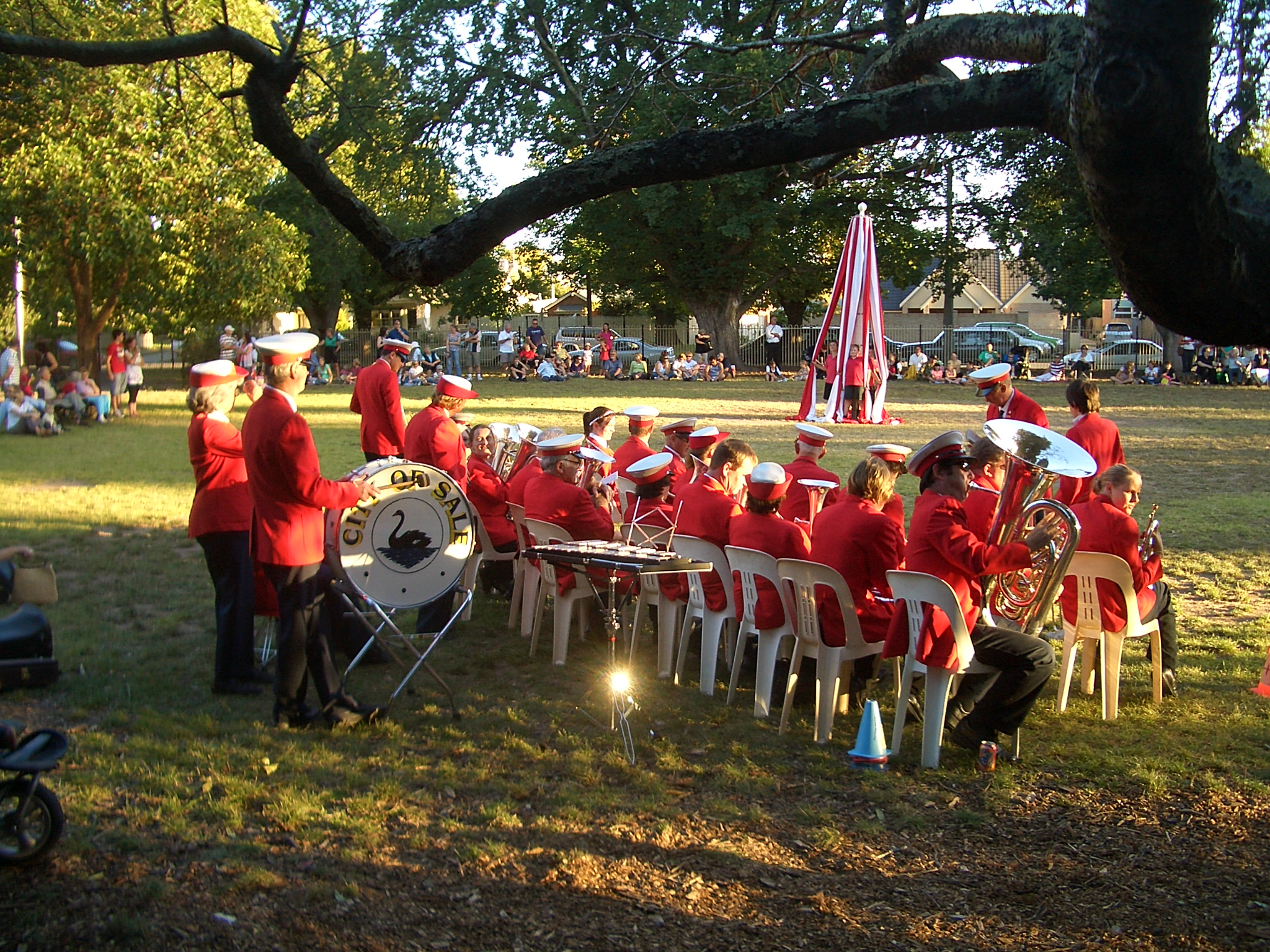 Students perform maypole dance, as the city brass band play music, at a Sale Primary School event, Sale, Victoria